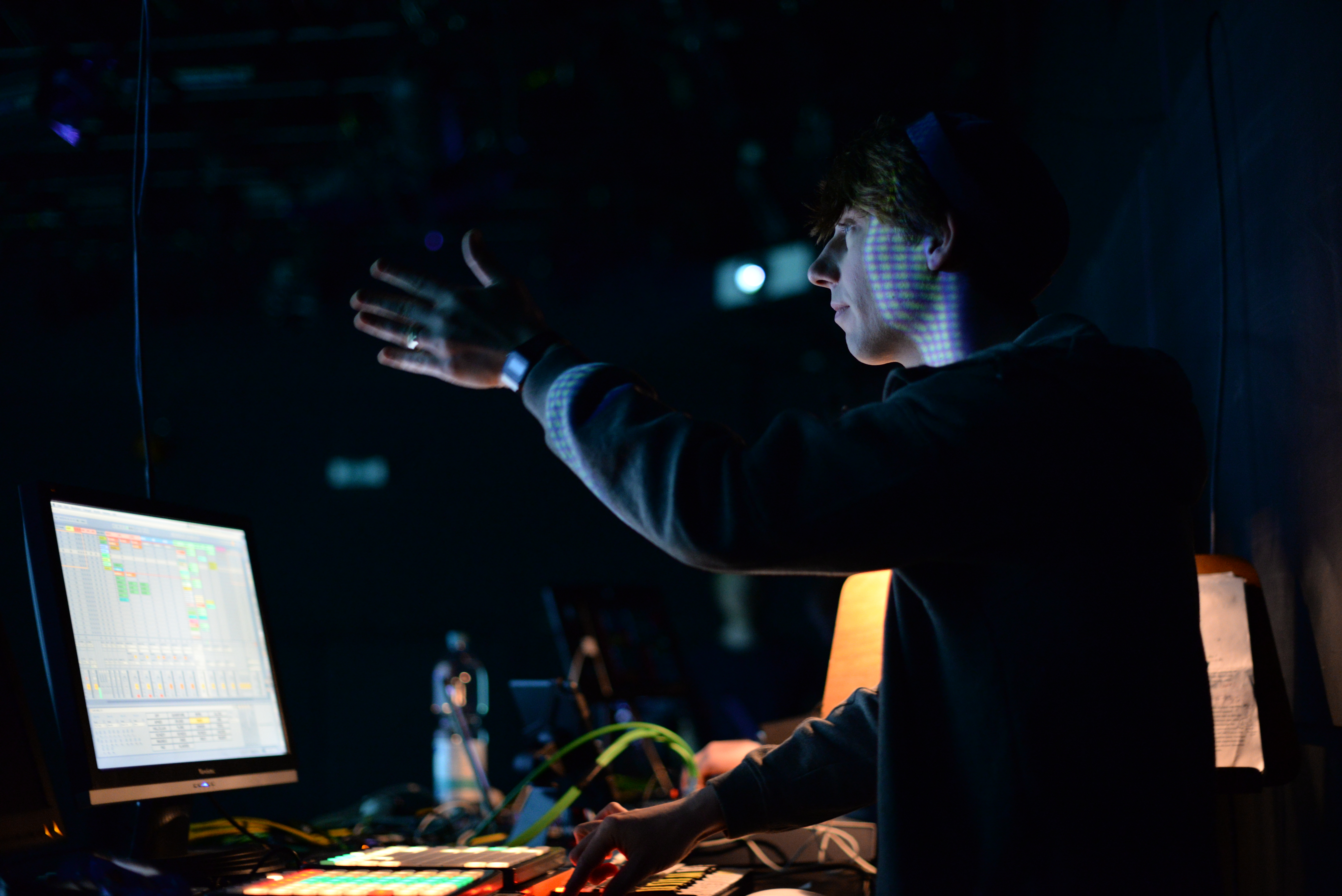 Tommy Finke gives a queuing signal for other actors in a threatre play (Psychose 4.48 by Sarah Kane at Schauspiel Dortmund)